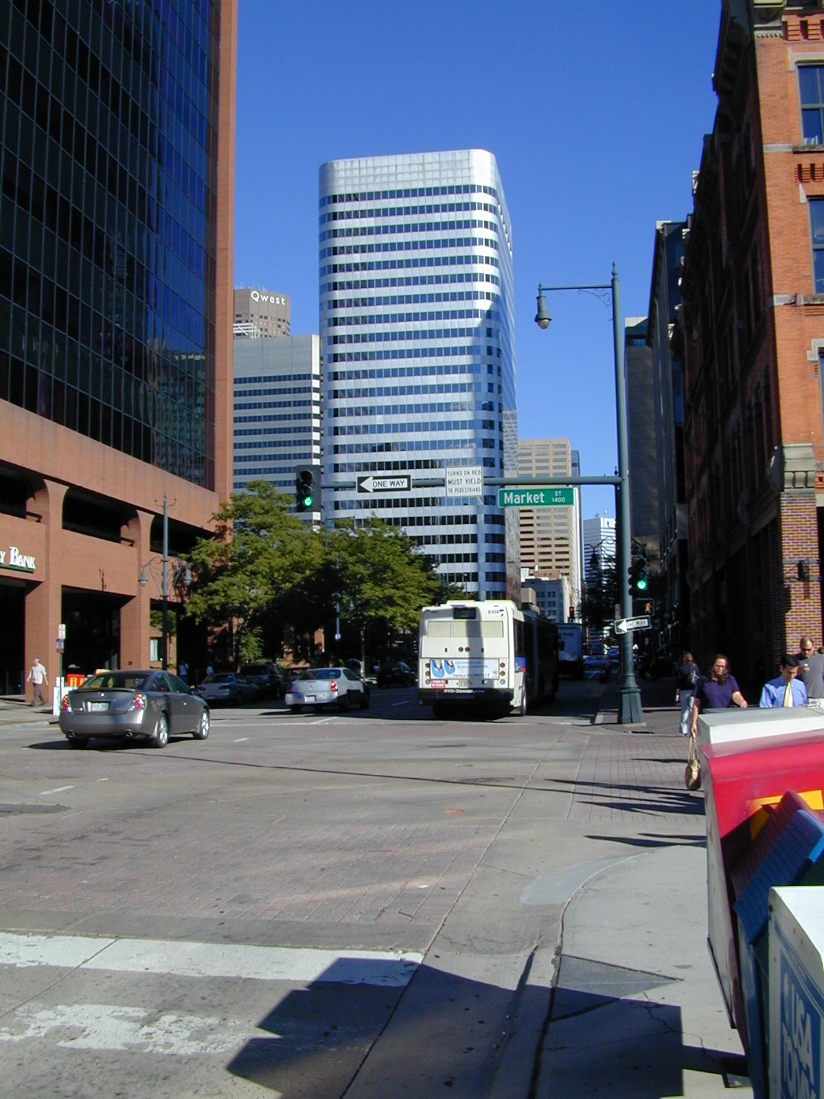 17th Street, also known as "Wall Street of the West" is home to many national banks, corporations, and financial agencies.